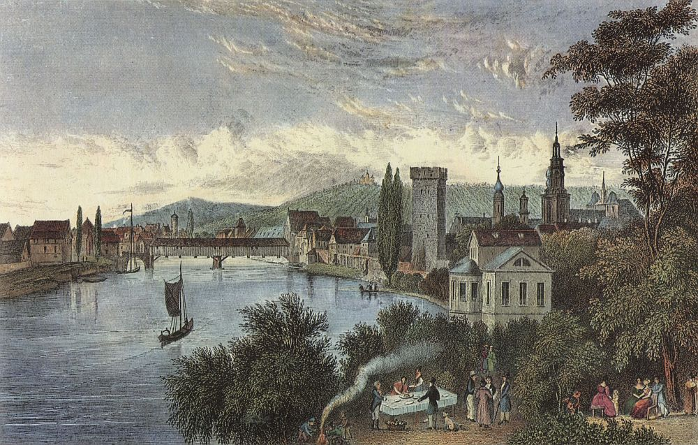 The shore of the Neckar in Heilbronn ca. 1840. Coloured steel engraving